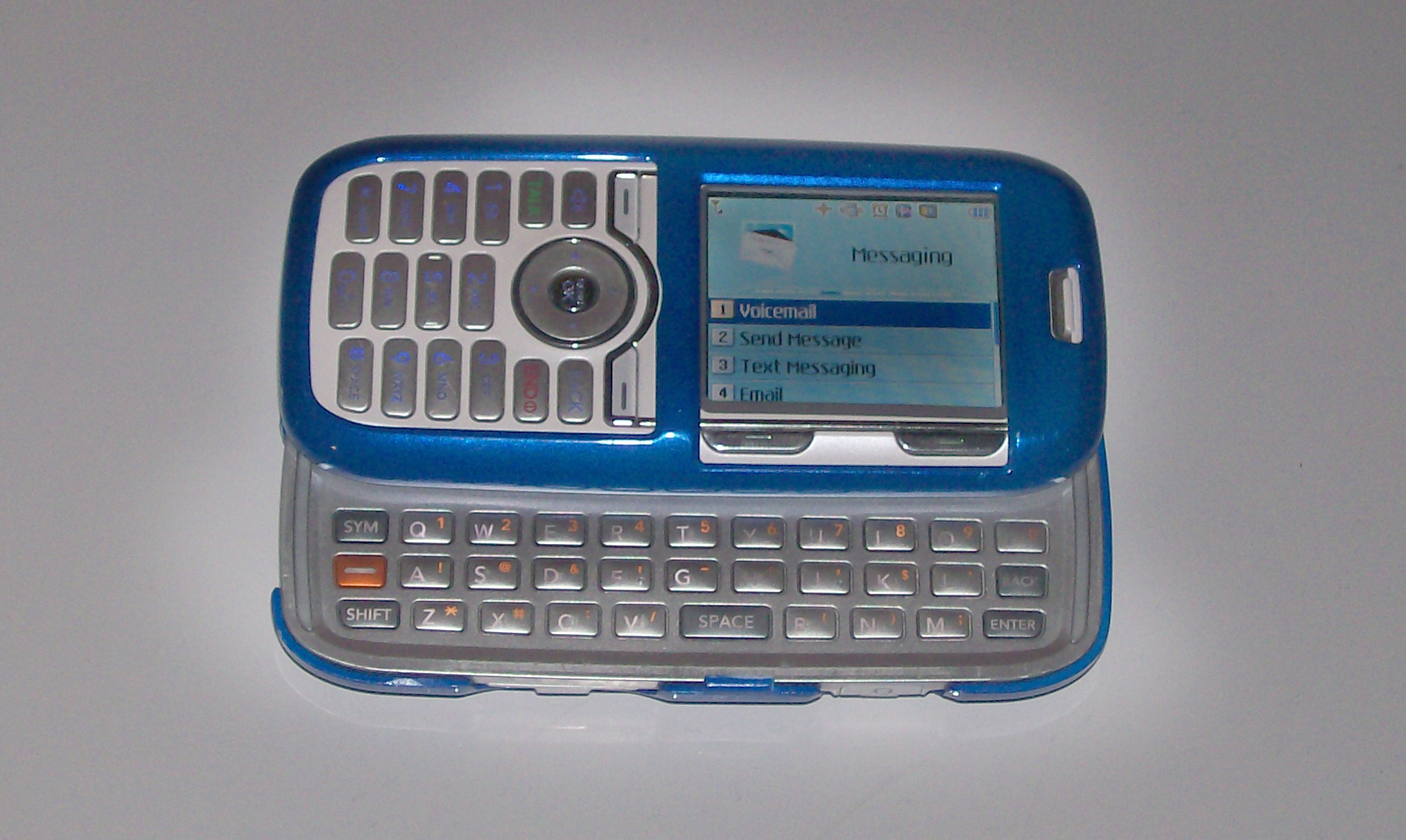 LG Rumor with Blue Case; QWERY pad showing.